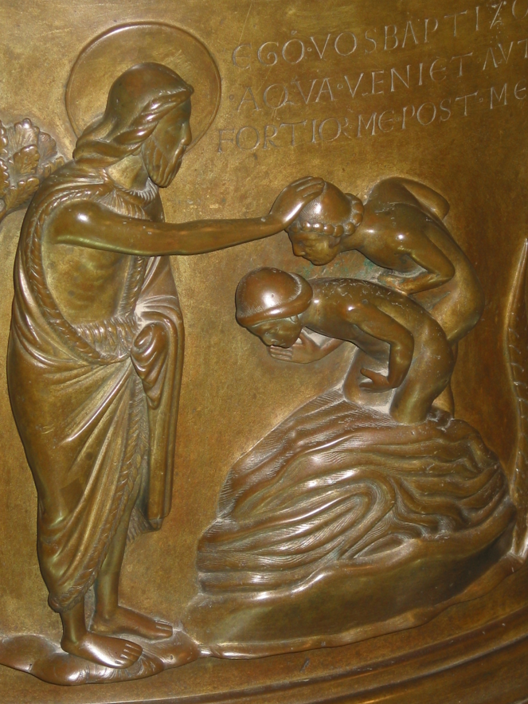 Liège (Belgium), St. Barhélemy (Bartholomew) - Baptismal font of Renier de Huy - The baptim of the two neophytes (begin of the XIIth century).